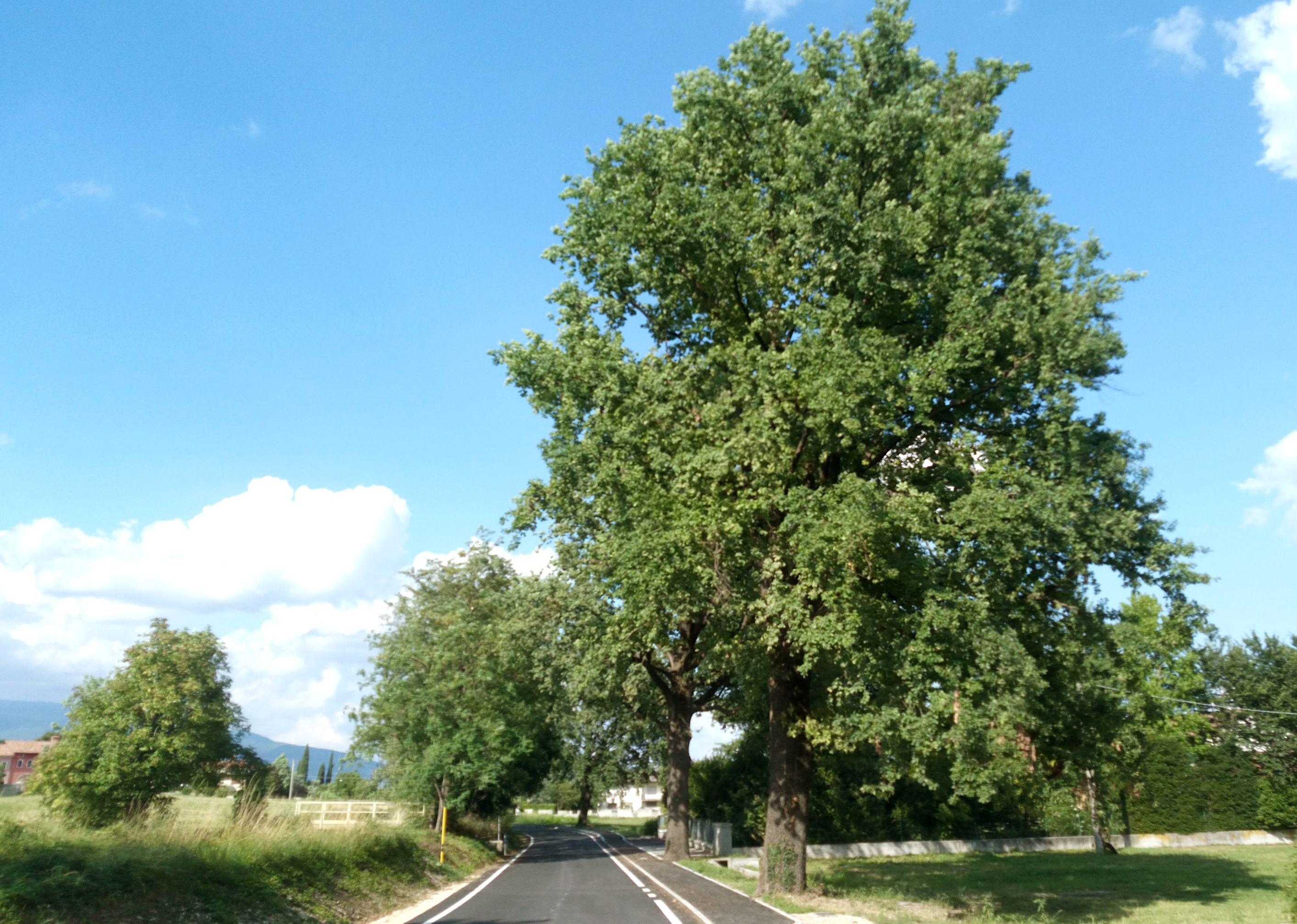 Le tre grandi querce della via Moranda. (Foto scattata da Paolo Steffan il 29/6/2017)